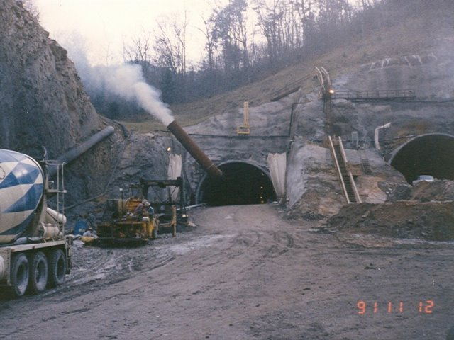 Picture of construction of U.S. 25E tunnels through the Cumberland Gap between TN and KY, dated 11-12-91